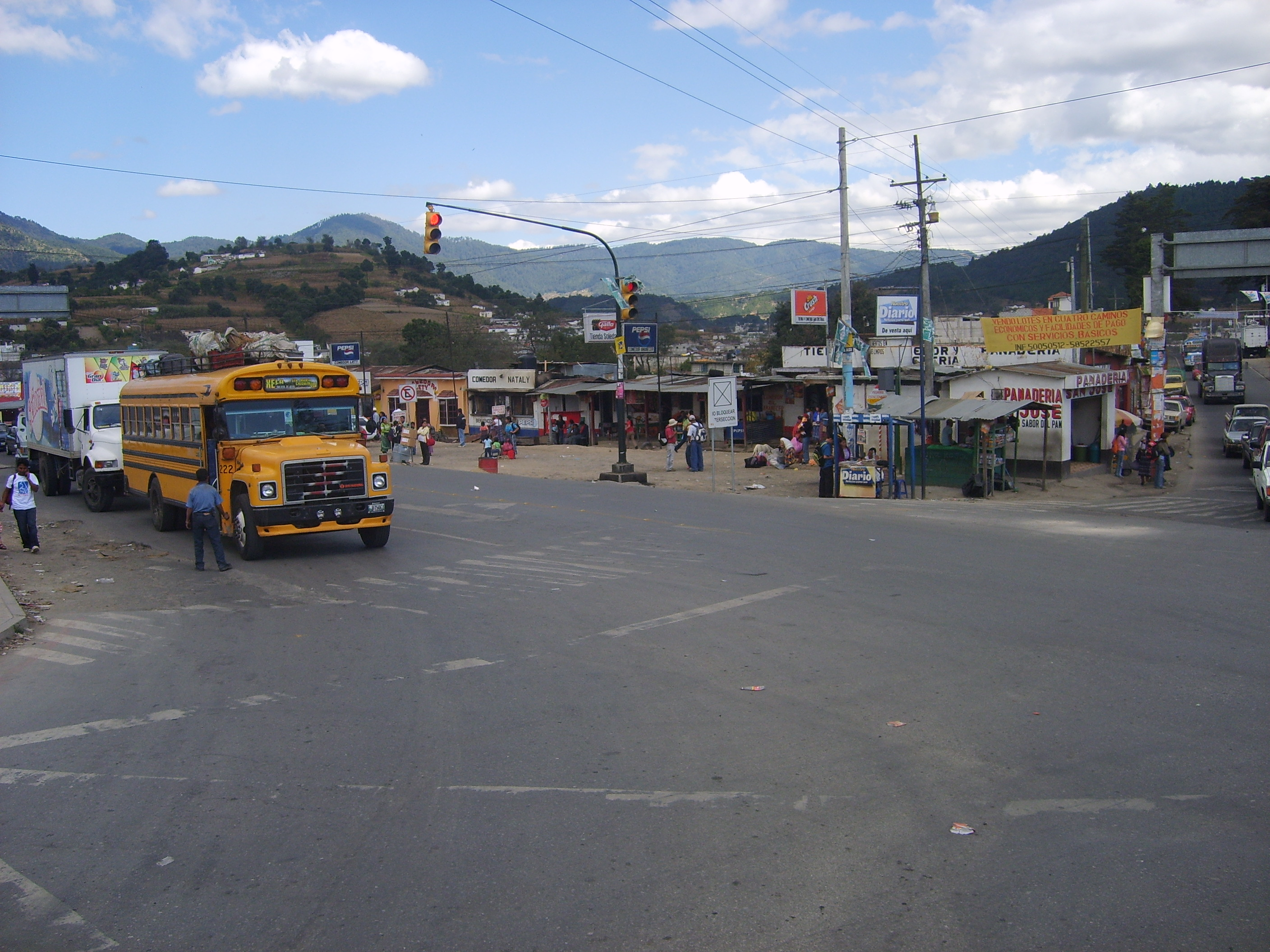 Cuatro Caminos, a major intersection on the Inter-American highway outside Quetzaltenango, Guatemala